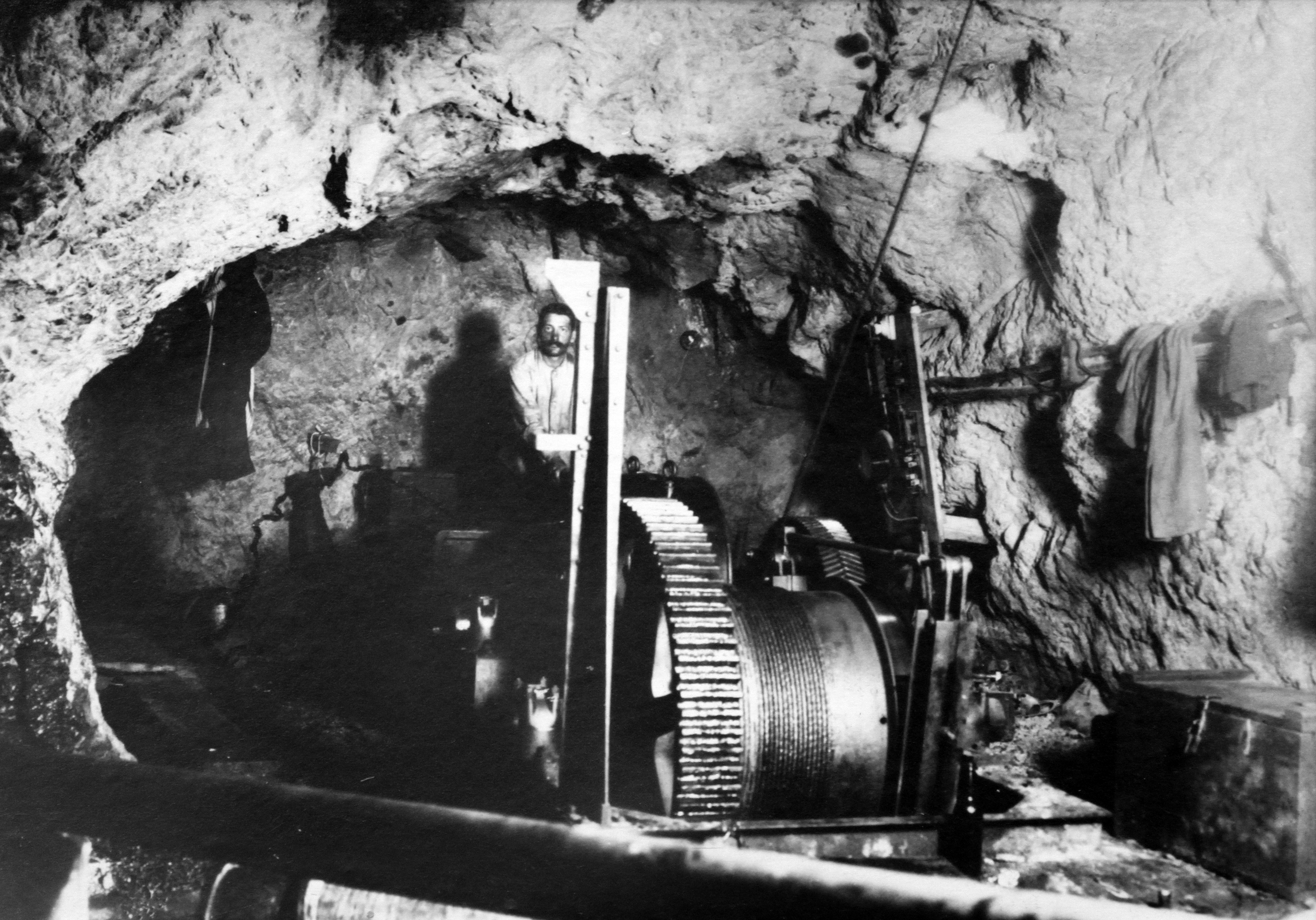 Tsumeb mine, reel (haspel), 1905-1914, Namibia